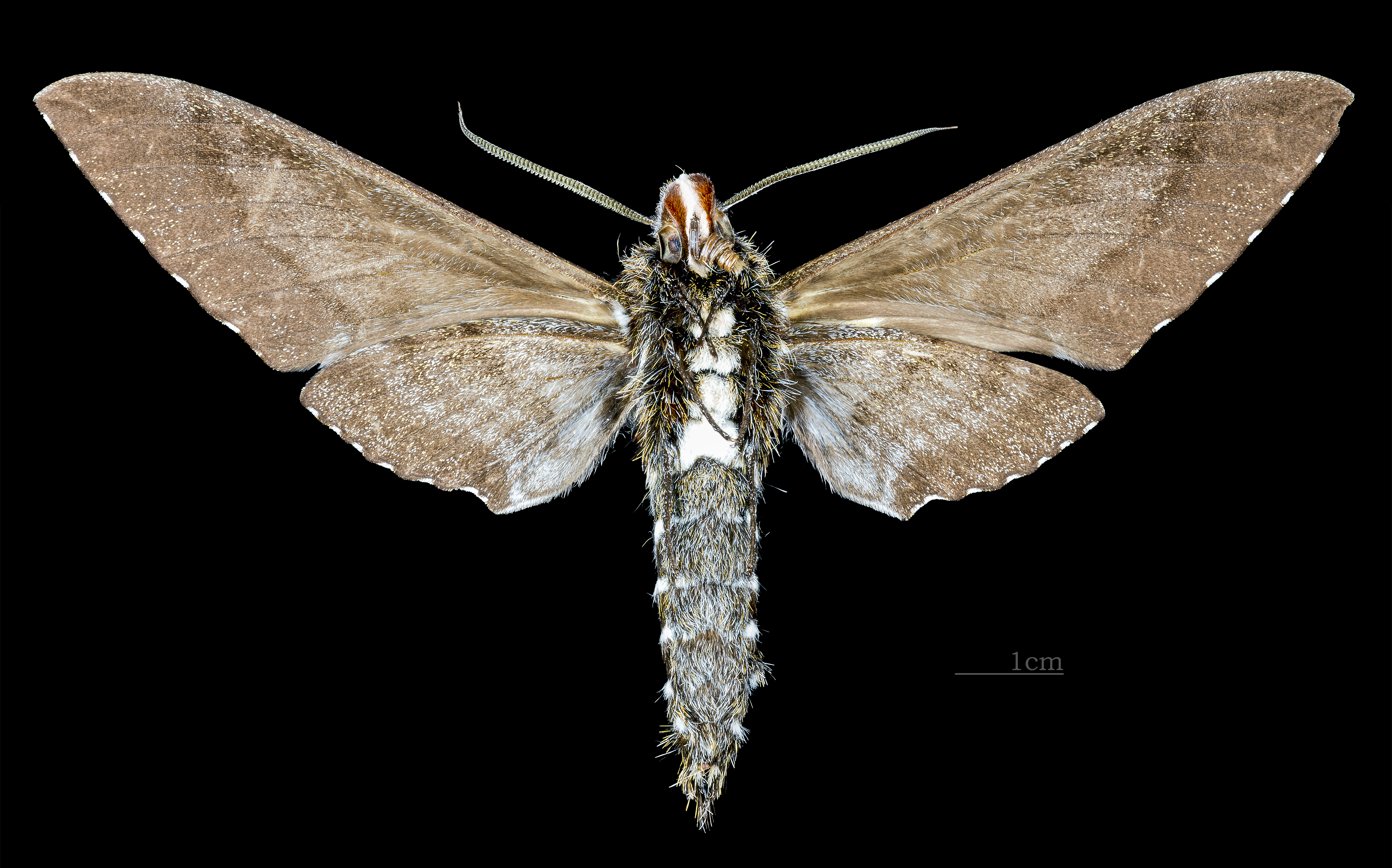 Euryglottis dognini - △ Ventral side